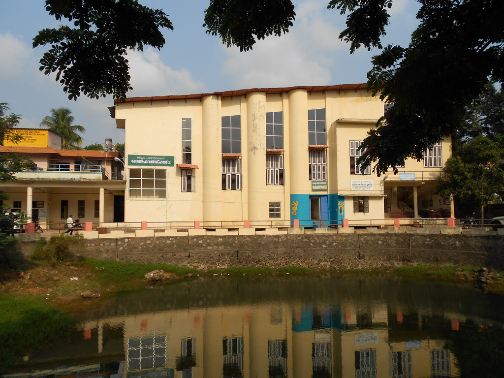 This media file is uploaded with Malayalam loves Wikimedia event - 2. Kollam jilla panchayath building